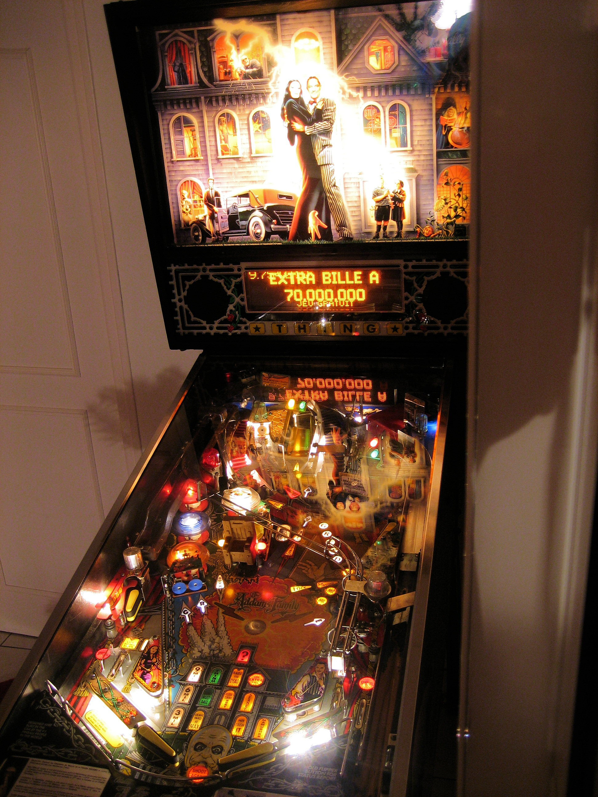 Addams Family pinball - Flipper Addams Family